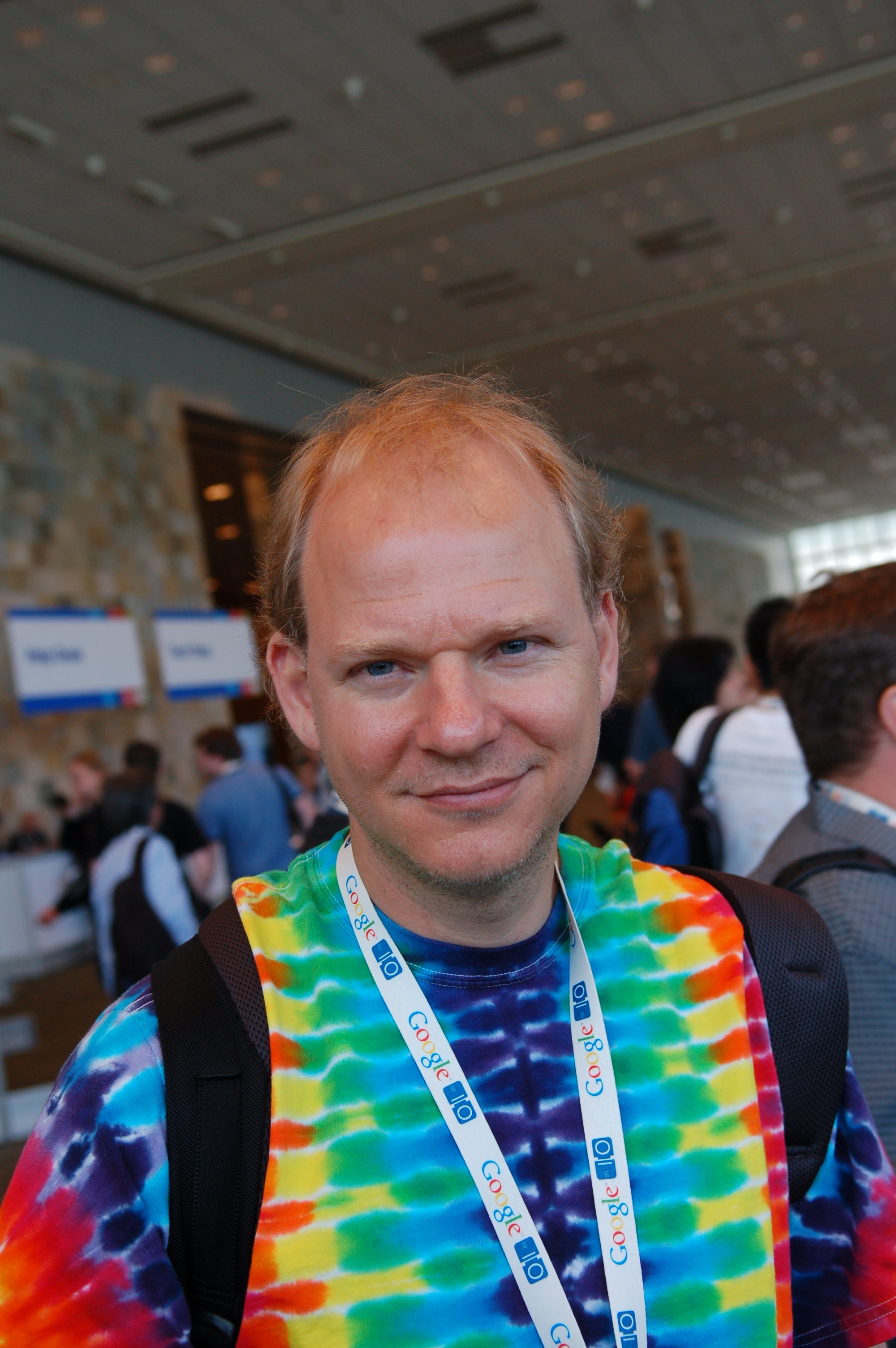 author: Adewale Oshineye url: Fair use rationale: Creative Commons License